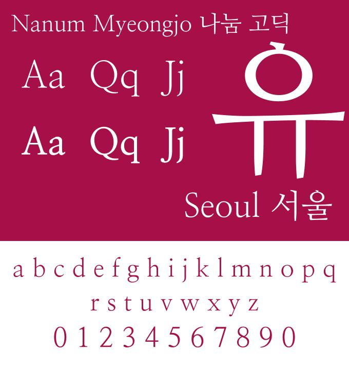 Sample of the Nanum Myeongjo typeface. Seoul is the capital of South Korea